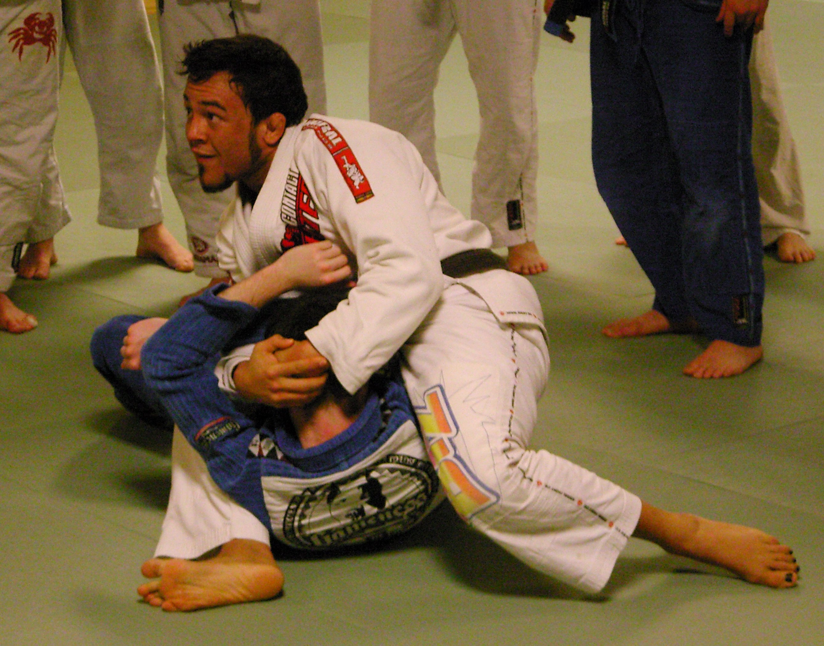 Jorge Gurgel instructing a group of his students in 2008